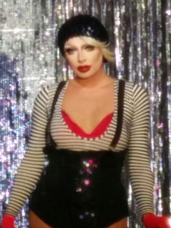 Raven performing "Tu Es Foutu" by In-Grid and "This Is How We Do It" by Montell Jordan at Micky's in Los Angeles, California, United States